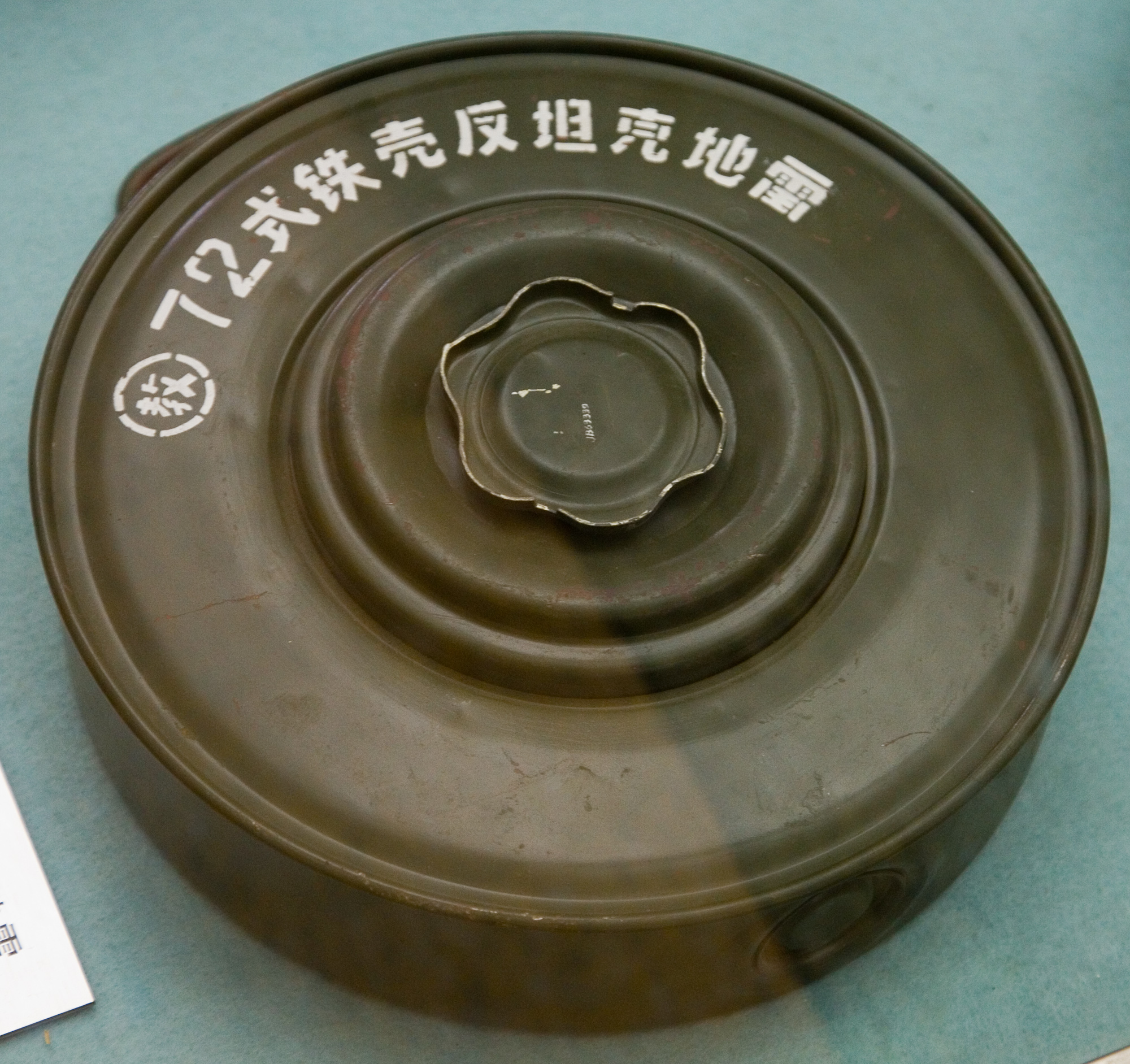 A Chinese Type 72 metallic anti-tank mine Main Battle Tank on display at the Beijing Military Museum.